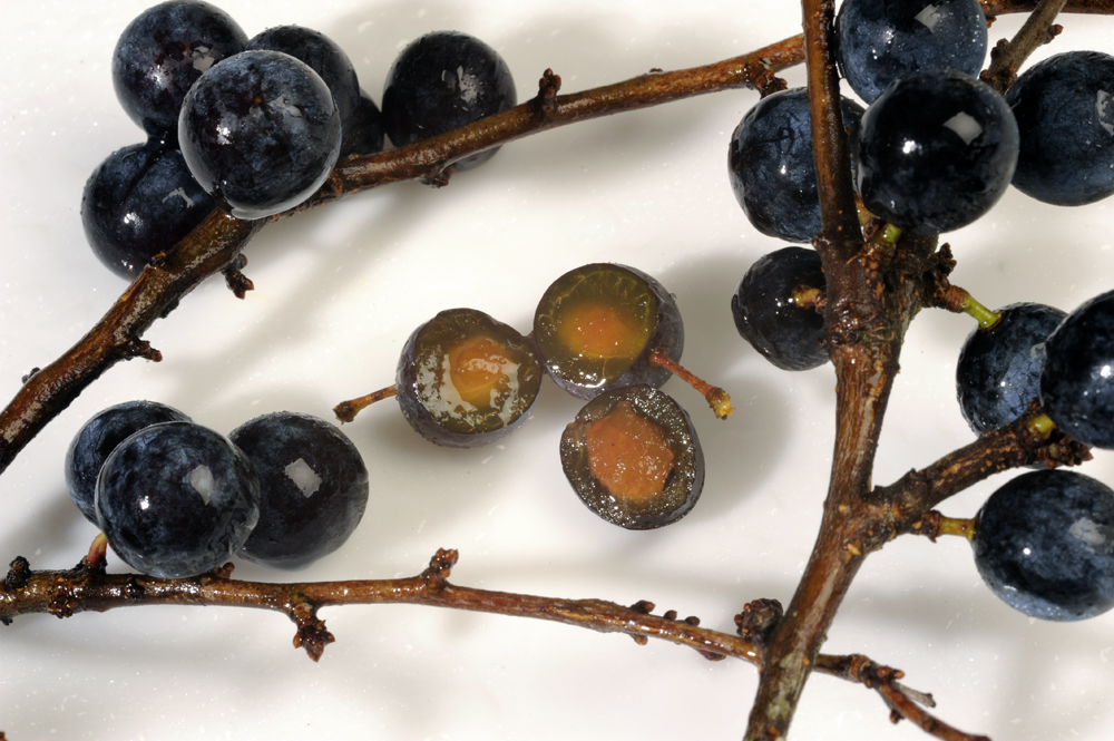 Fruit of blackthorn bush picked in Stockholm in November